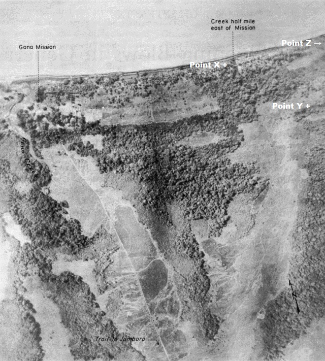 air phot of Gona with annotations. Some added to original source photo.